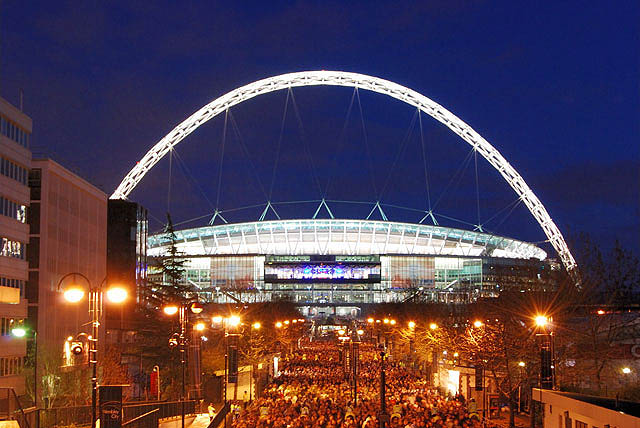 Wembley is the national stadium and home of the England football team. The new stadium has a arch which is illuminated at night. You are free to use this imagine providing you credit Landscapes of England and provide a link back to our website